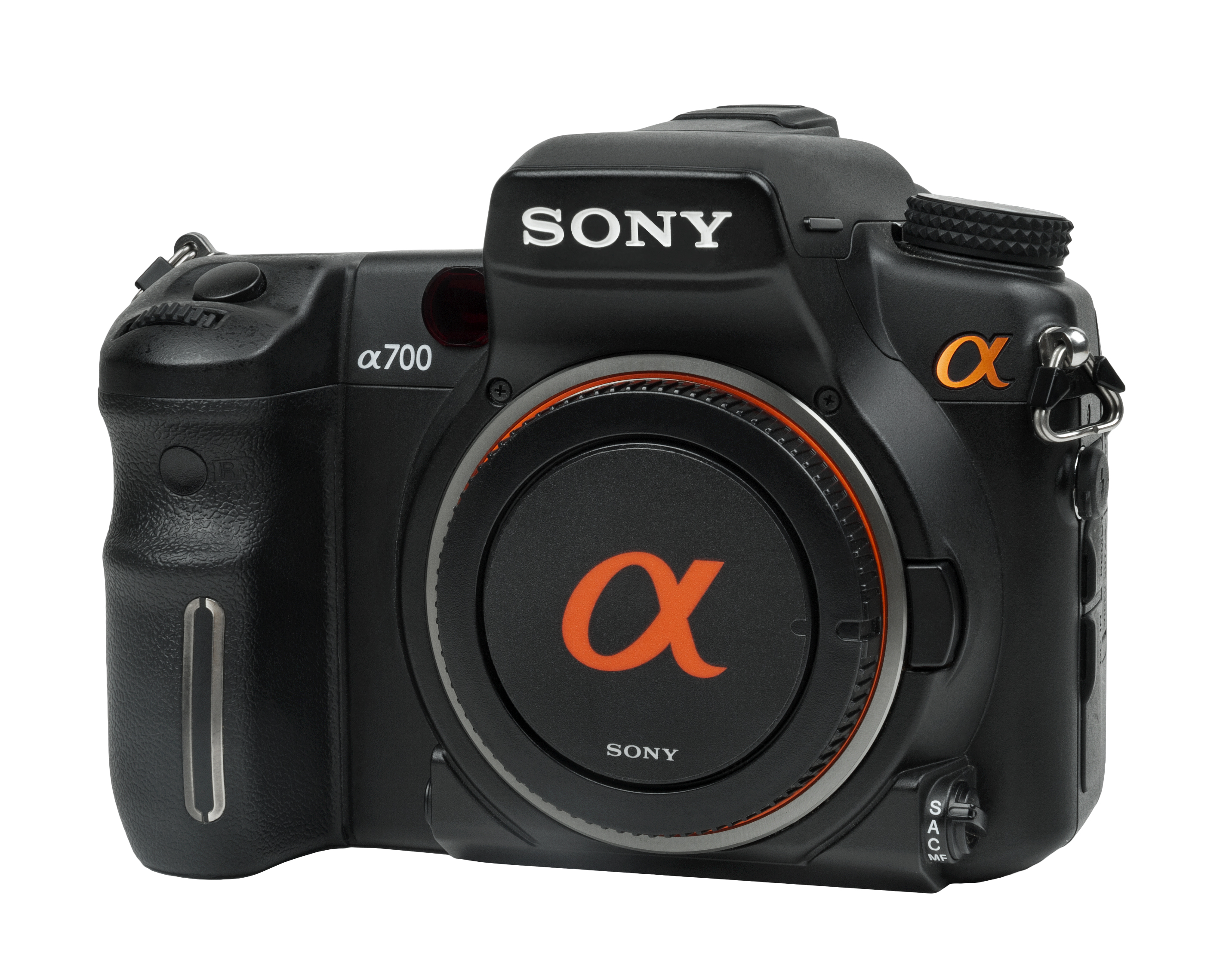 The front of a Sony Alpha A700 DSLR. The Sony α700 is a digital single-lens reflex camera. Introduced in 2007, it featured 12.4 effective megapixels and a maximum resolution of 4288 × 2856 pixels. Due to Sony's buyout of Konica Minolta's camera technology in 2006 it is compatible with the Minolta A-type mount lenses and accessories. The α700 is a successor to the Konica Minolta Maxxum 7D, Konica Minolta's highest end model of DSLR, and is considered a "prosumer" model. It was succeeded in 2011 by the Sony α77.